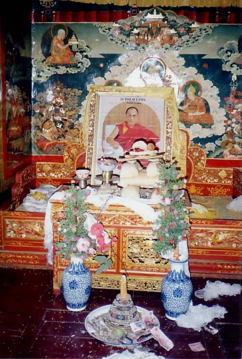 Throne awaiting Dalai Lama's return. Summer residence Nechung. 1993. Original accompanying text: "I took this photo in 1993. John Hill 11:48, 28 January 2007 (UTC)"